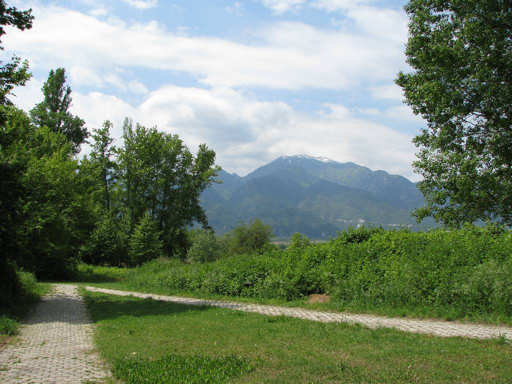 Olimpos mountain from the Archaeological site at Dion, Pieria, Greece